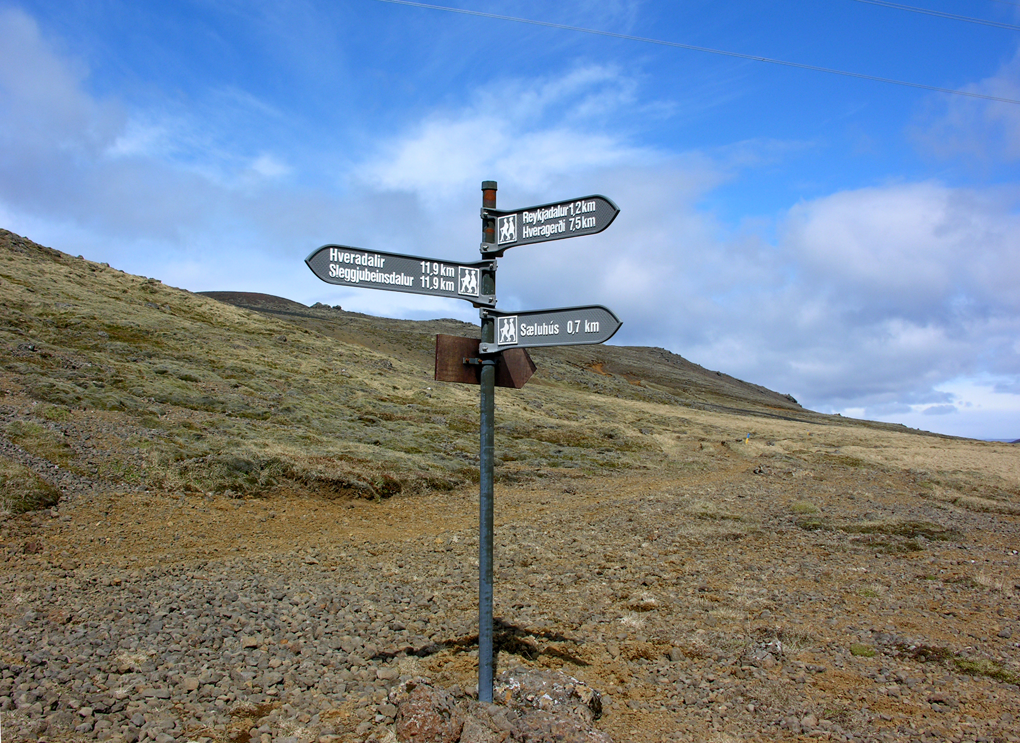 Iceland, Hengill